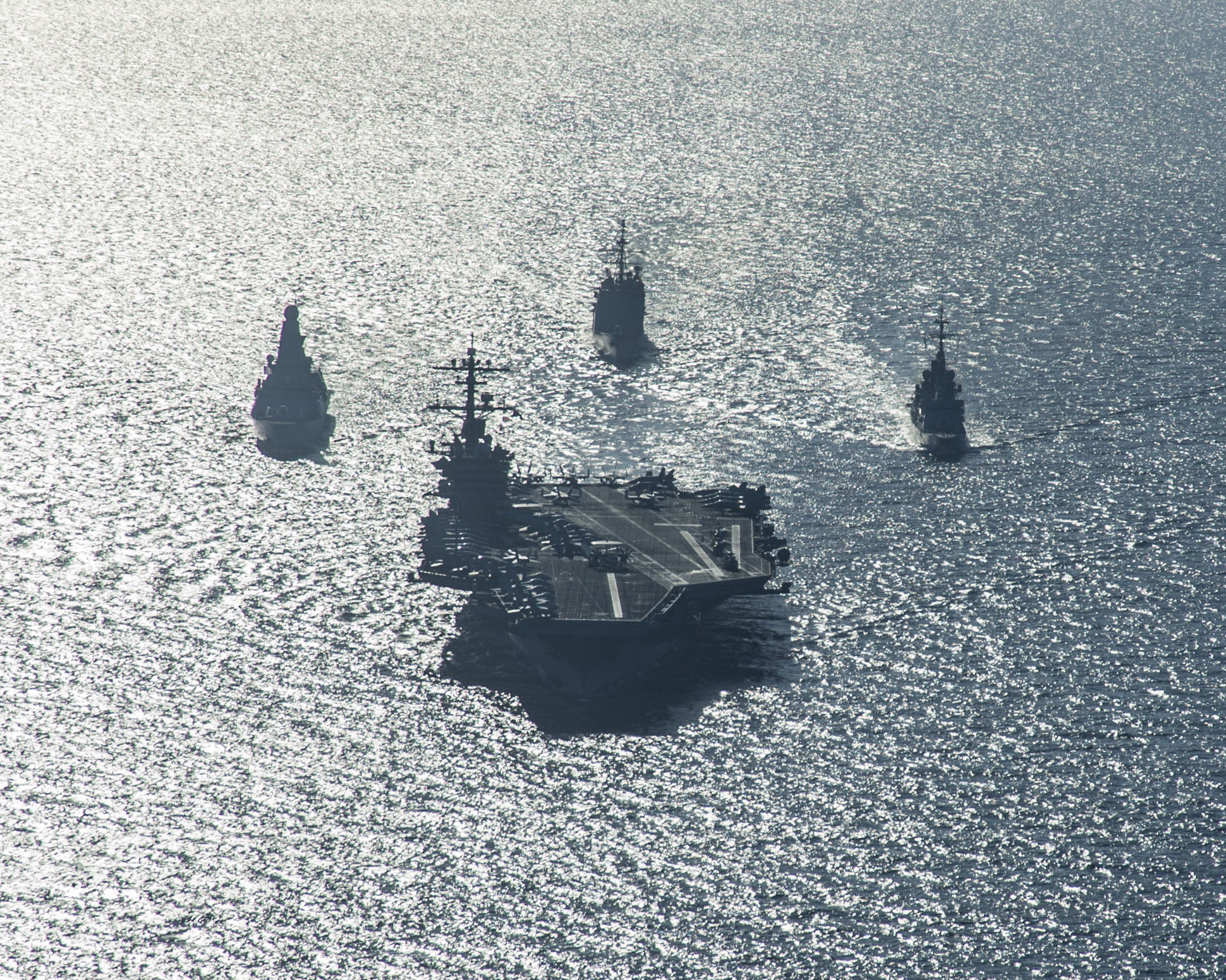 The U.S. Navy aircraft carrier USS Carl Vinson (CVN-70) sails in formation in the Arabian Gulf with the Royal Navy air-defence destroyer HMS Defender (D36), the guided-missile cruiser USS Bunker Hill (CG-52) and the French Marine Nationale anti-air frigate Jean Bart (D615), 9 November 2014. The Carl Vinson strike group was deployed in the U.S. 5th Fleet area of responsibility supporting "Operation Inherent Resolve", strike operations in Iraq and Syria as directed, maritime security operations, and theater security cooperation efforts in the region. With a quarter of the world's navies participating including 6,500 Sailors from every region, IMCMEX was the largest international naval exercise promoting maritime security and the free-flow of trade through mine countermeasure operations, maritime security operations, and maritime infrastructure protection in the U.S. 5th Fleet area of responsibility and throughout the world.